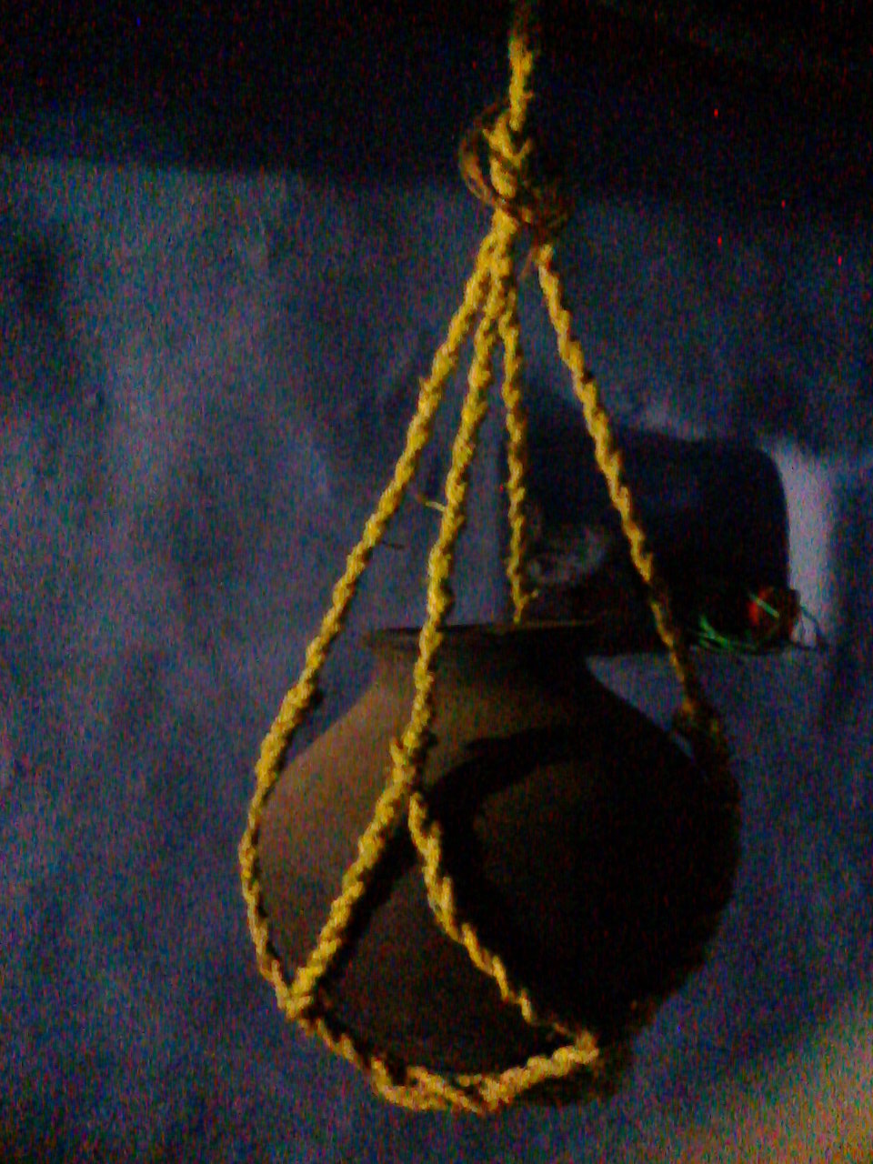 கிராமத்து உறிபானை